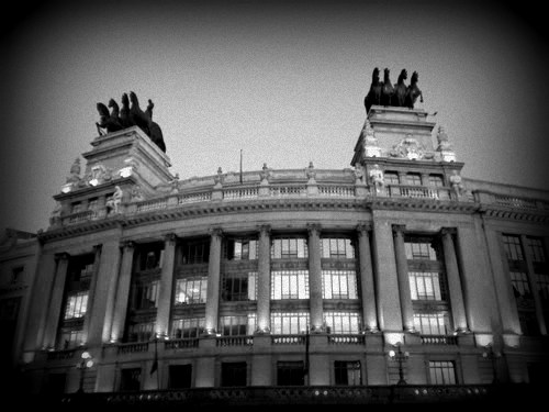 Façade of the Bank of Bilbao (1923) in Madrid (Spain).